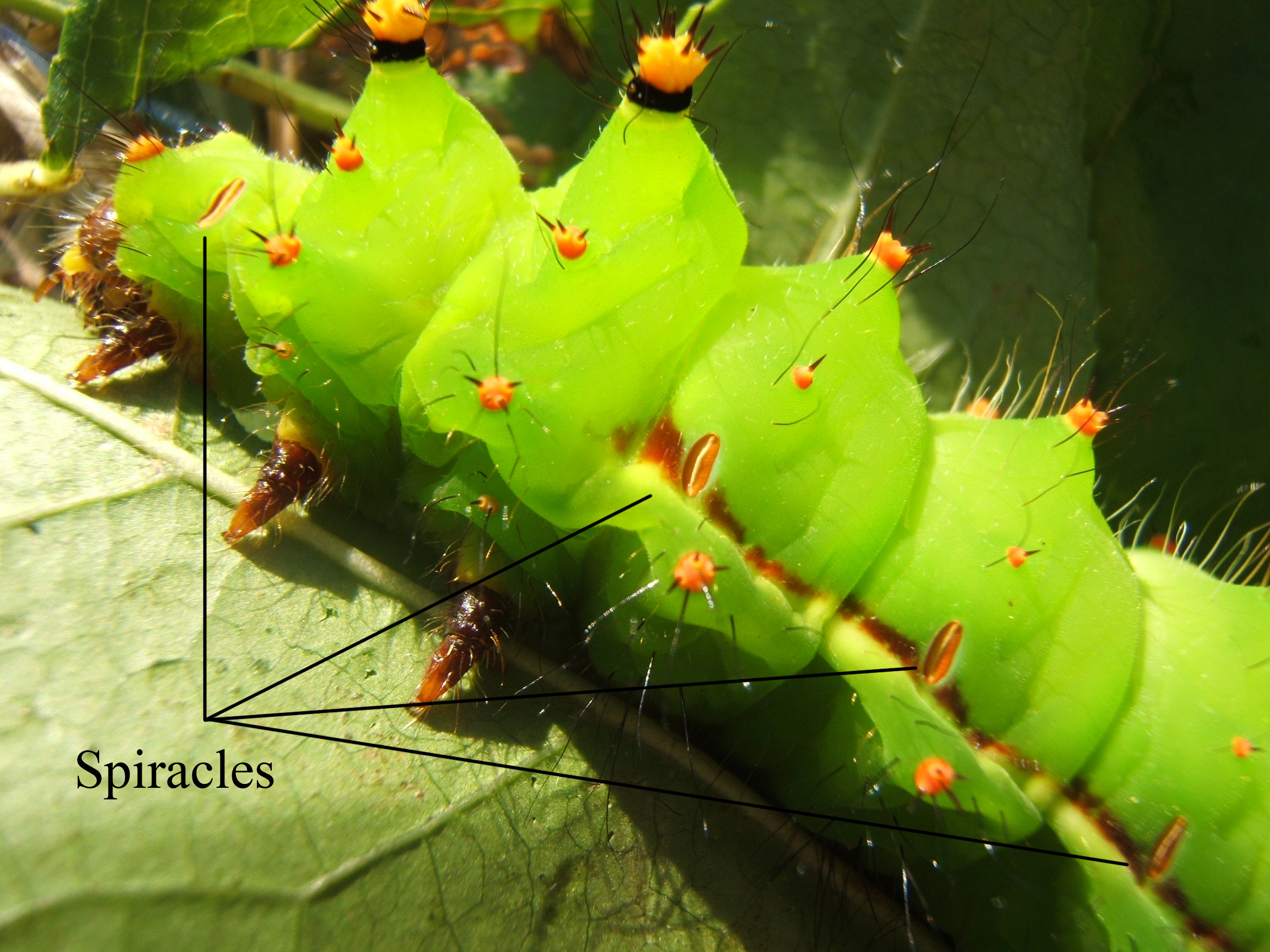 Actias selene 5th instar raised on American Sweetgum. Raised and picture by Shawn Hanrahan. This image has been modified in Adobe Photoshop to identify the spiracles.